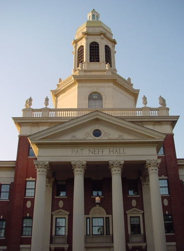 Pat Neff Hall on the Baylor University Campus This image was taken by Enoch Lai on October 25, 2003 on the Baylor University Campus.